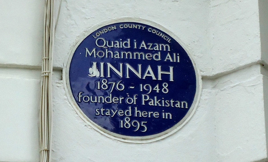 London Blue Plaque dedicated to M.A. Jinnah. 35, Russell Street, Kensington, London.